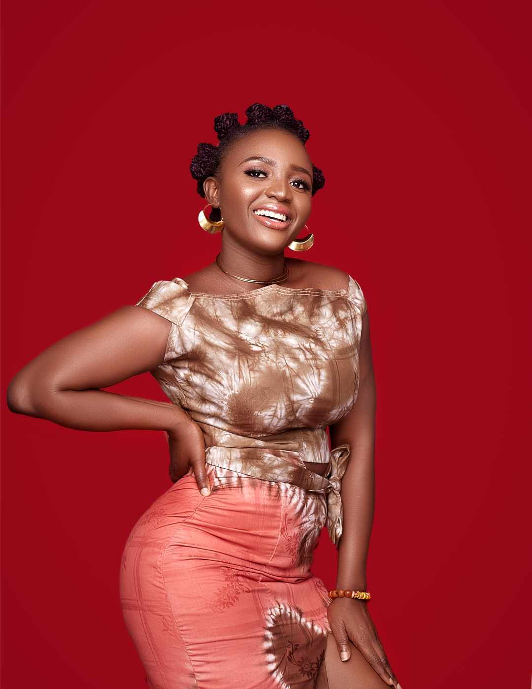 Studio session with Lamisi.